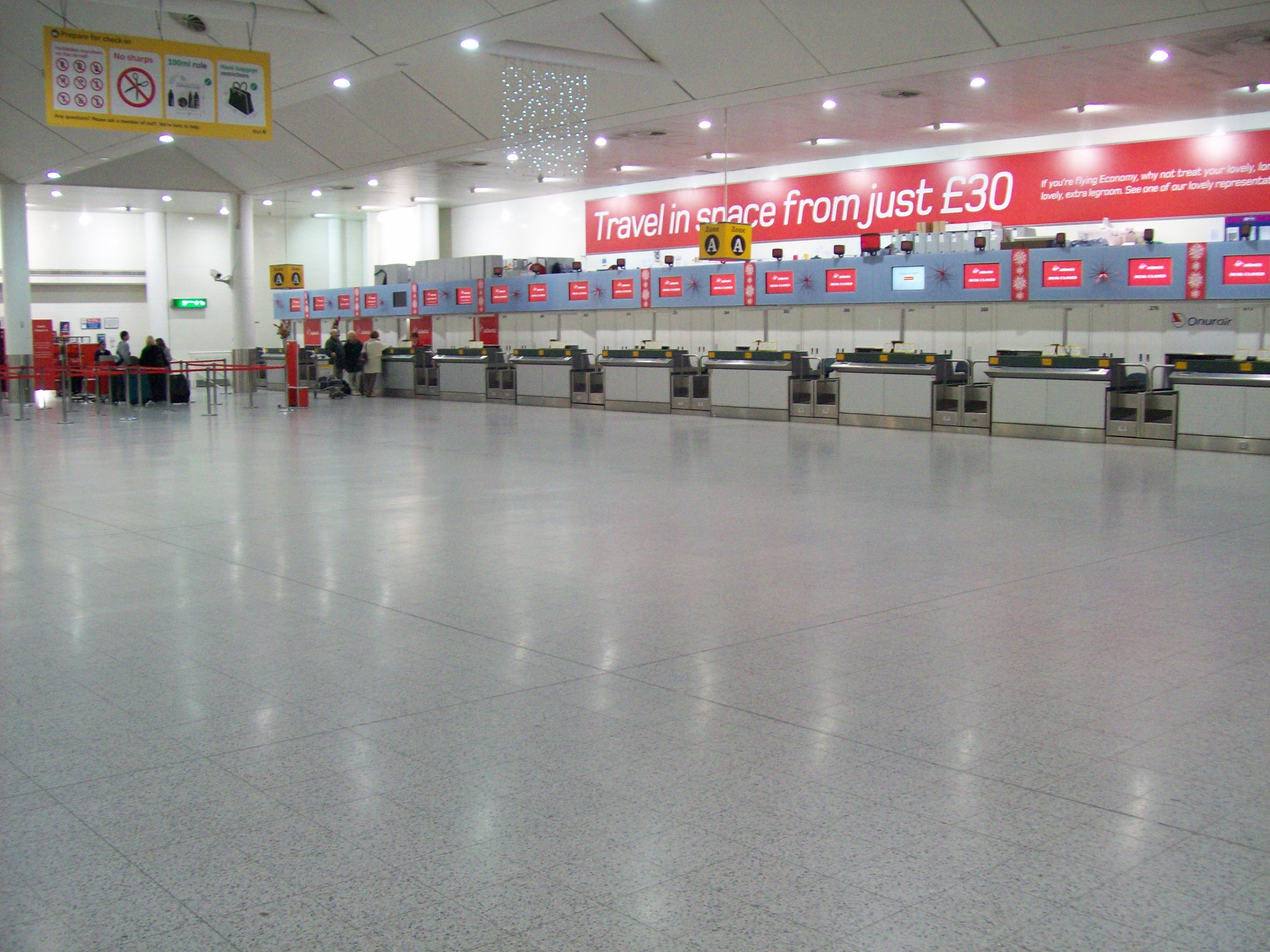 South Terminal Zone A check-in concourse, currently used by Virgin Atlantic